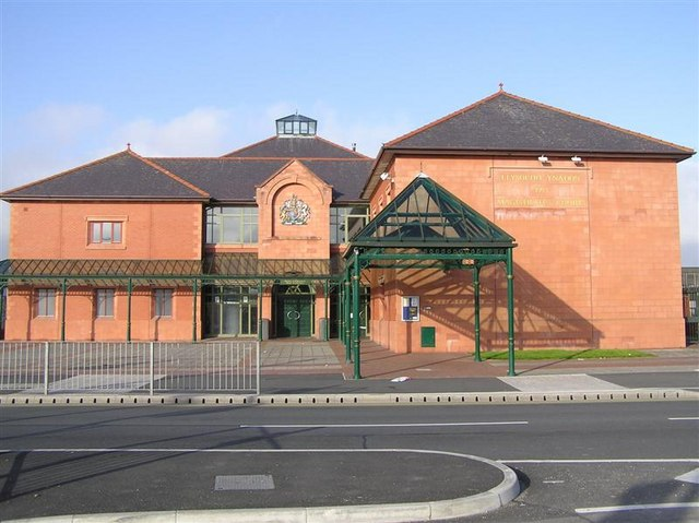 Llandudno Magistrates' Court (looking north)